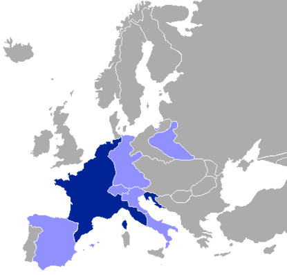 First French Empire in 1812.